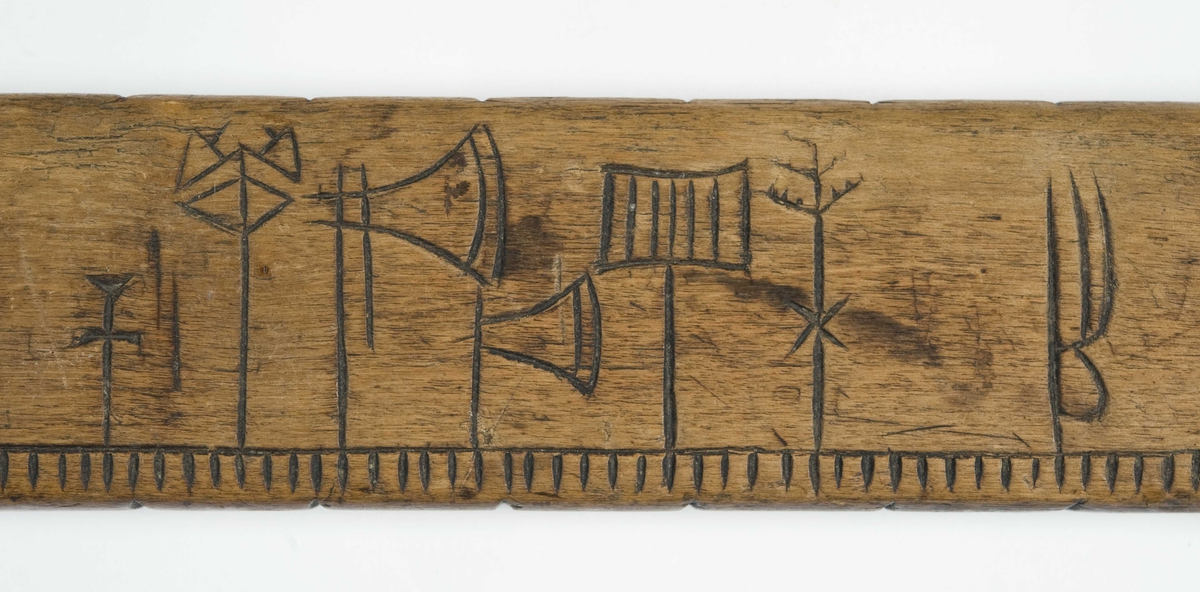 Runic staff, closeup of dates from the summer side.